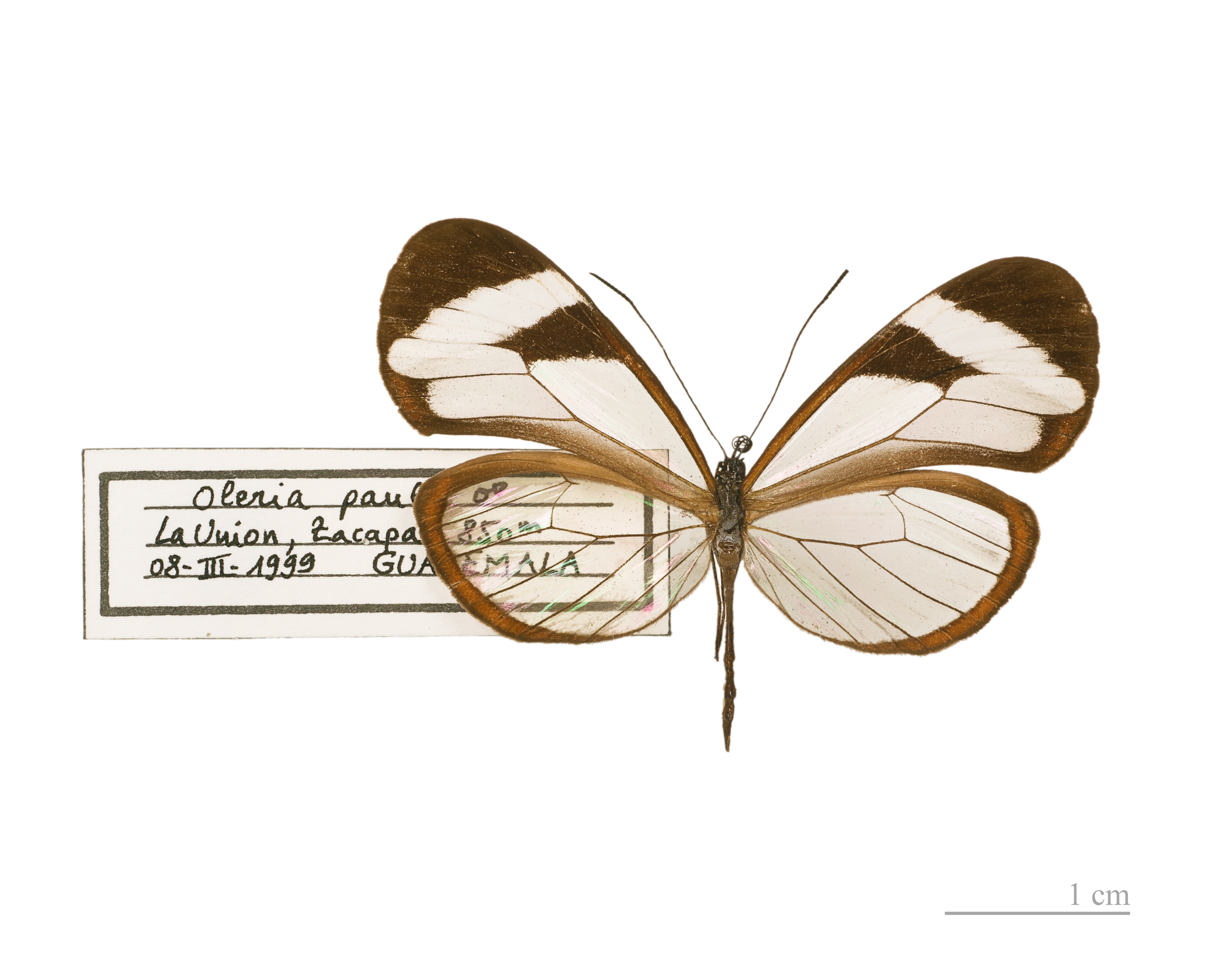 ♂ - Dorsal side Locality : La Unión Zacapa Department, Guatemala.